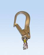 Firehook-Rohrhaken